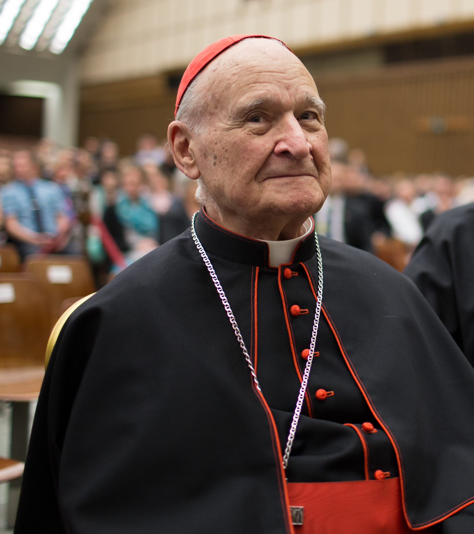 Swiss cardinal Gilberto Agustoni at the Paul VI Audience Hall.